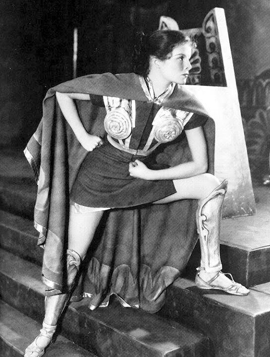 Photograph of the actress Katharine Hepburn in the 1932 Broadway production of The Warrior's Husband. Public domain explanation The photograph was taken for publicity purposes, and would have been sent in a press pack to theatrical magazines and the general press for promotion of the play—thus satisfying the demands for "publication". The photograph does not appear to contain the copyright symbol ©, the word "Copyright", or the abbreviation "Copr.", as then required for copyright. There are other photographs from the same photoshoot which appear to include a stock number and author signature, but that do not appear to contain the copyright symbol ©, the word "Copyright", or the abbreviation "Copr." — see [1] and [2]. This suggests that none of the publicity images for the play were published with a copyright notice. By publishing a photograph without such a notice, under the terms of the 1909 Copyright Act (which was law until 1978) the image went into the public domain. If there is any chance that the photograph was copyrighted, under the terms of the 1909 Copyright Act it would have had to be renewed 28 years after publication. A search for copyright renewal records of 1960 ([3], [4]) reveal no trace that this occurred.